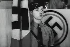 German American Bund Rally. Still from "March of Time" -outtakes - Story RG-60.0699, Tape 316